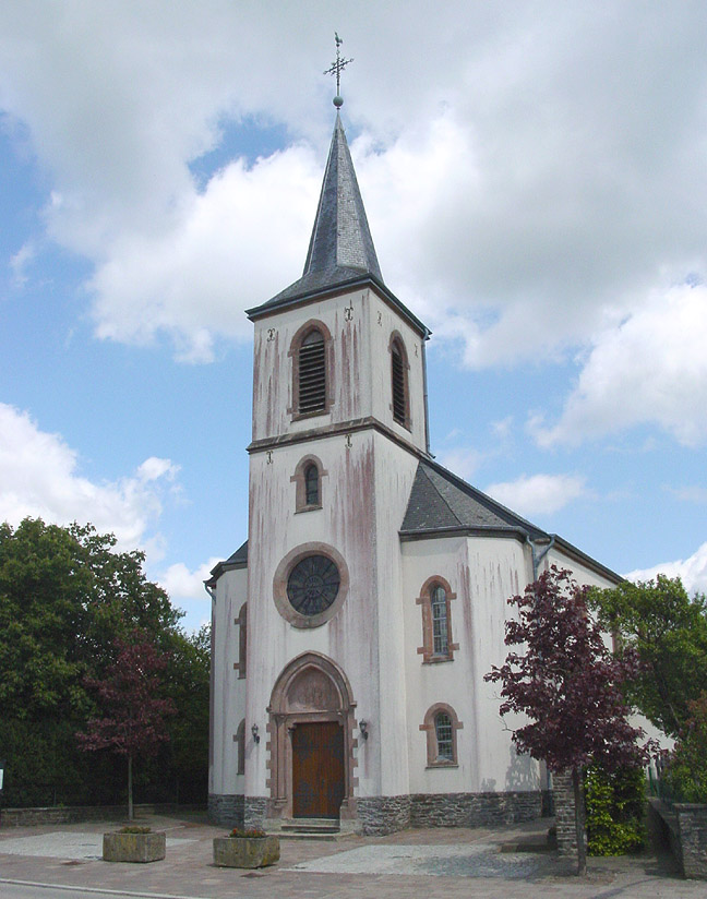 The church in Marnach, Luxembourg. Photograph taken by David Edgar on 5th June 2006.